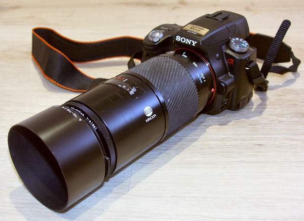 Sony Alpha 55 with Minolta 70-210 F/4 "Beercan"